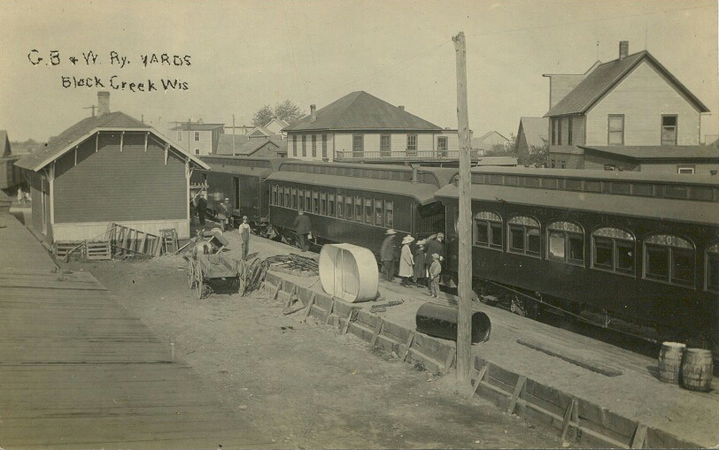 Original Green Bay & Western Railway yards along current day Railroad Street in Black Creek, Wisconsin. In the background, the central building is the former Hotel VanPatten. Today, the former Hotel Arlington stands in its place. All structures in this photo have been demolished. c 1909